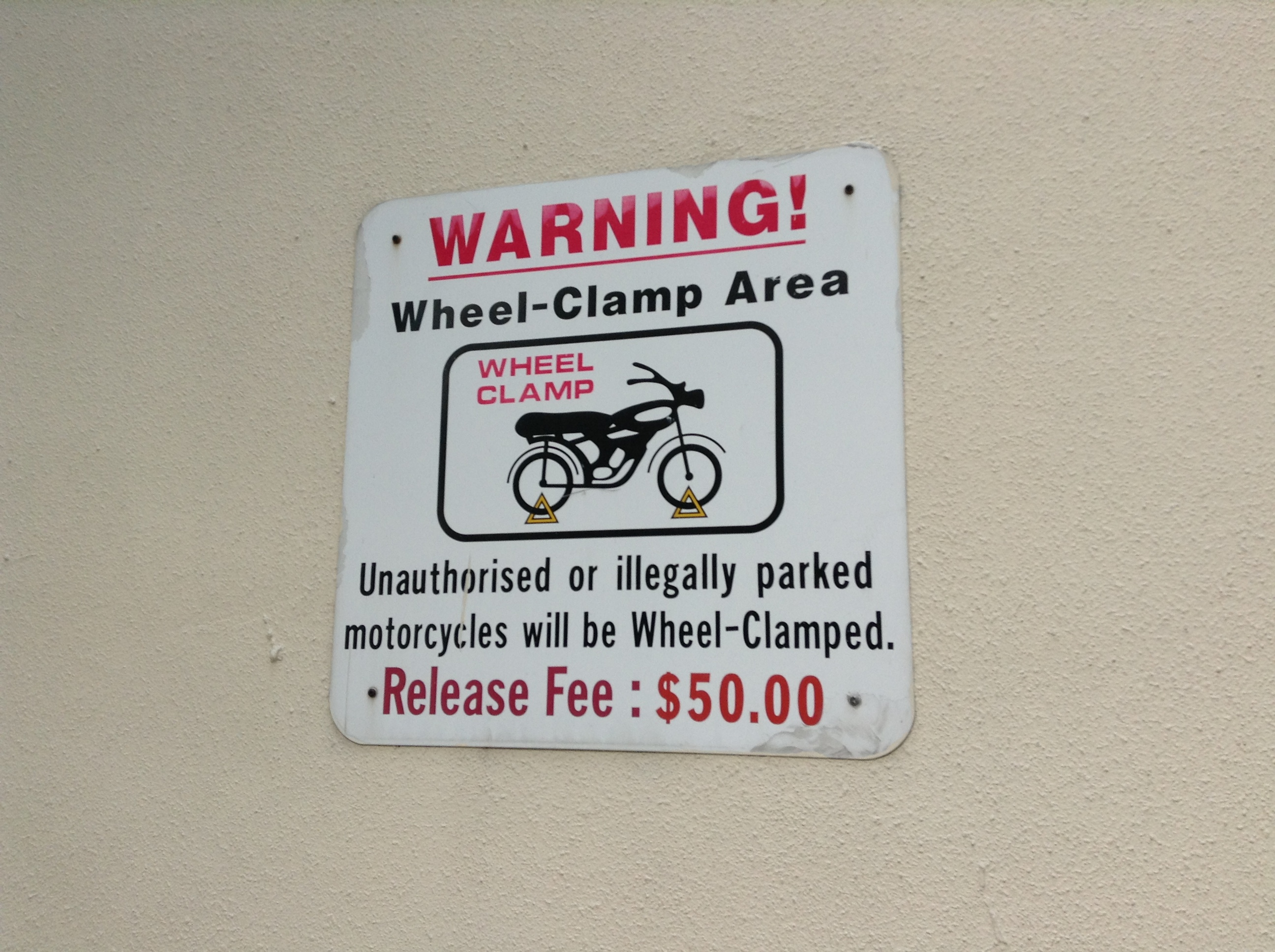 A Singapore Police Force warning sign that states violators pay S$50.00 if vehicles are found to be illegally in the area.